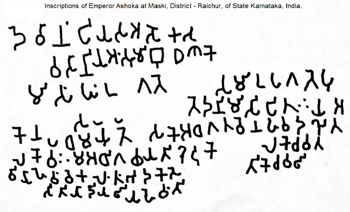 This is the Grafix of Emperer Ashoka at Maski, District Raichur, Karnataka. Grafix is made from actual photograph taken by me on 8th October, 2011.